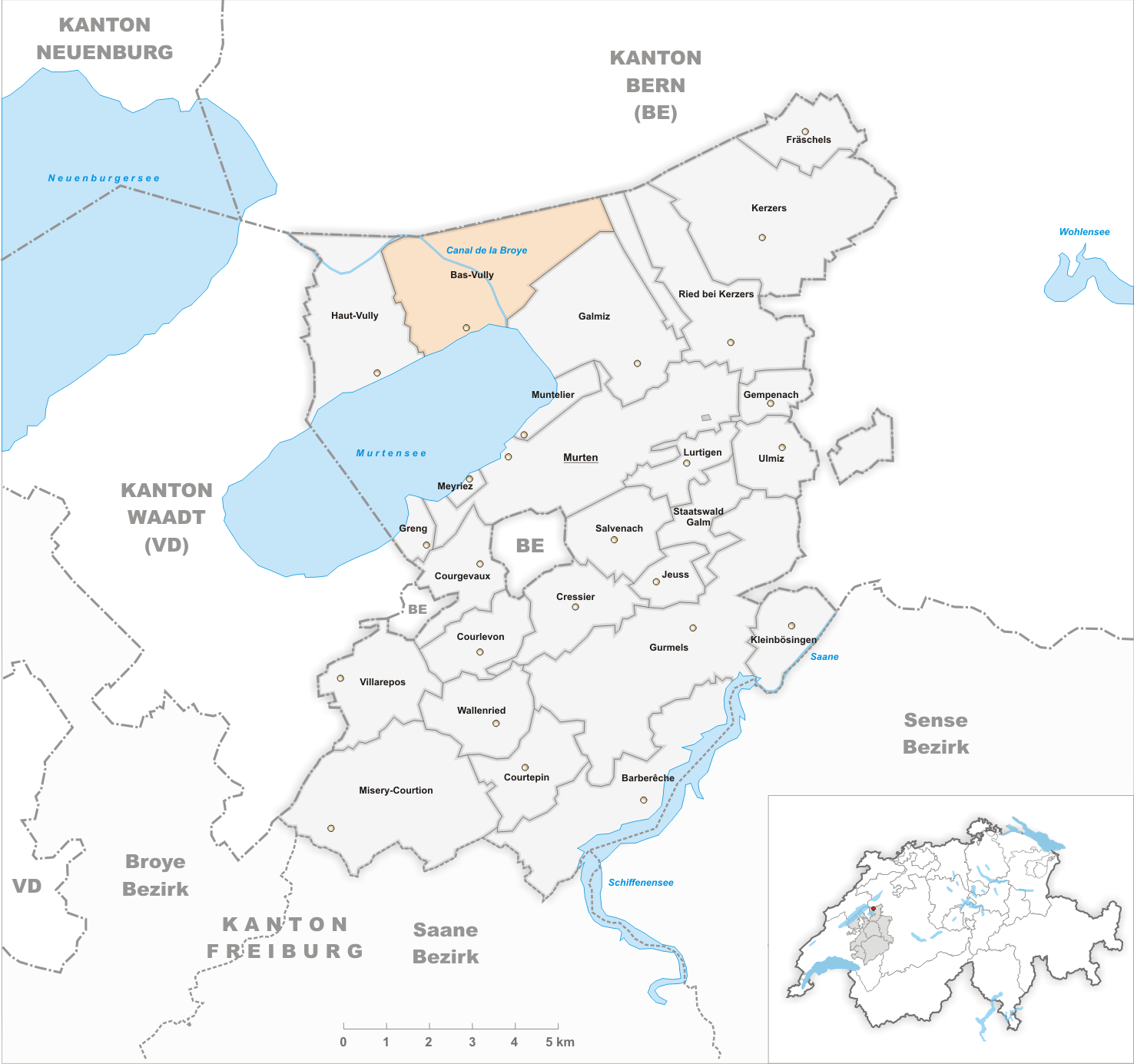 Municipality Bas-Vully